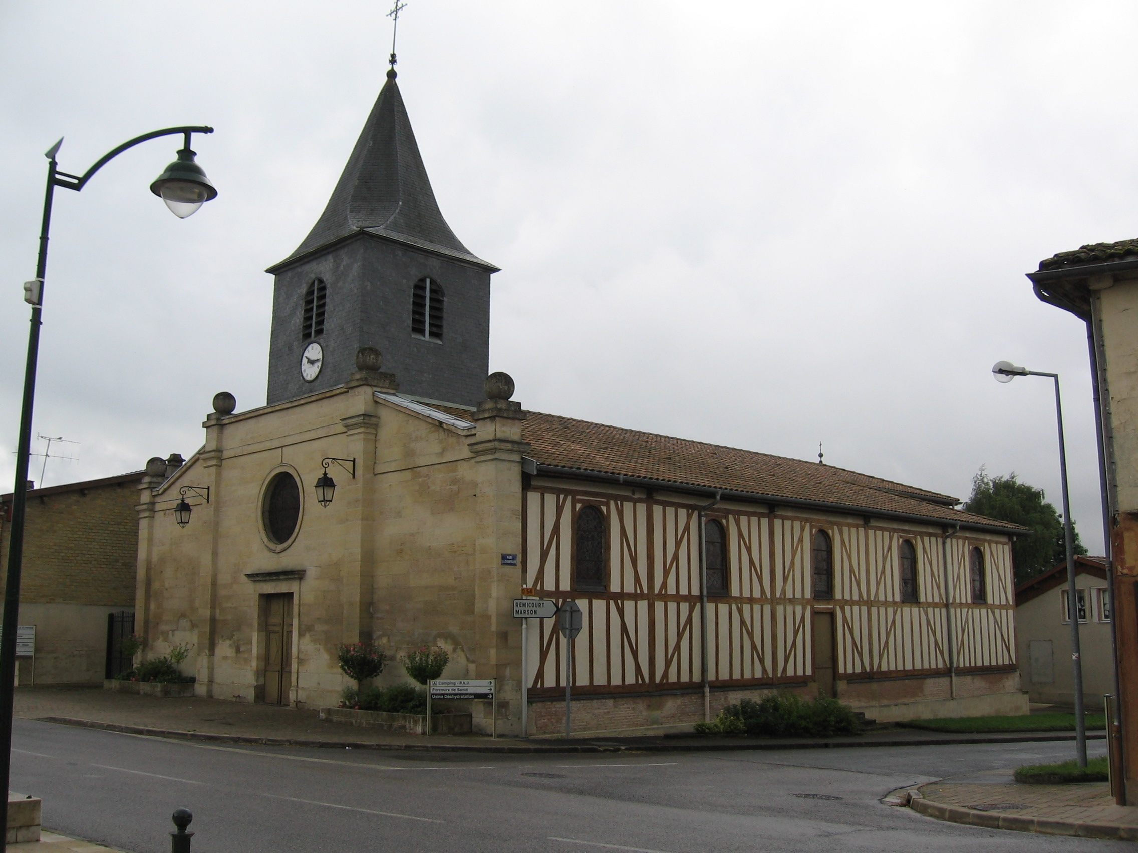 Eglise à pans de bois de Givry-en-Argonne (Marne, France).